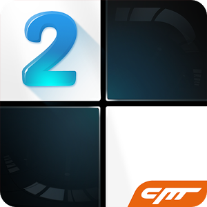 The icon of the mobile game "Piano Tiles 2"